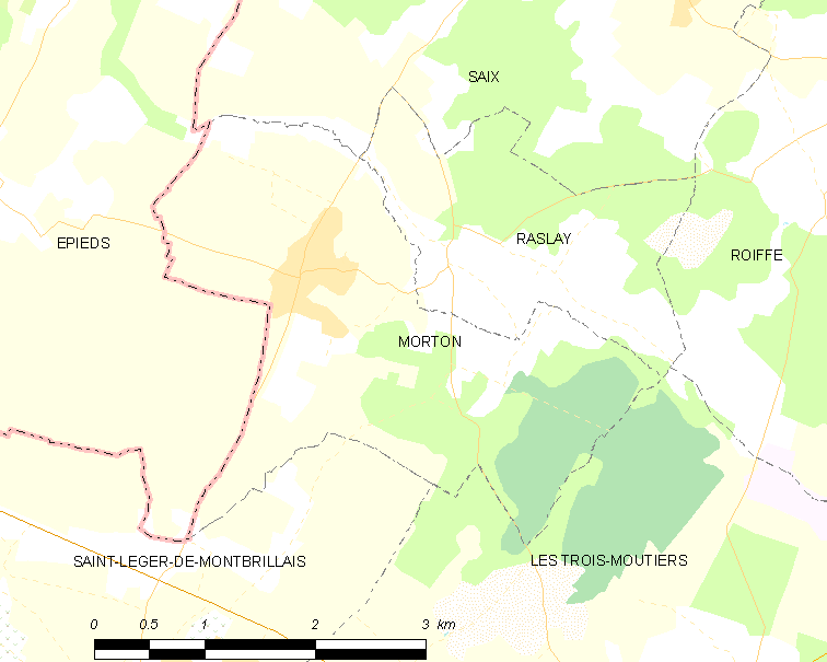 Map of French municipality Morton